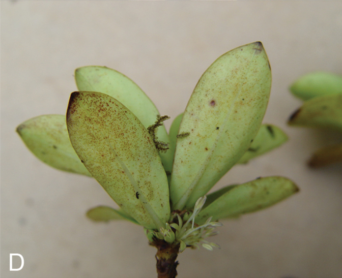 Coprosma meyeri W. L. Wagner & Lorence, branchlets with male flowers (Hiva Oa, Perlman 18337, photos D. Lorence)